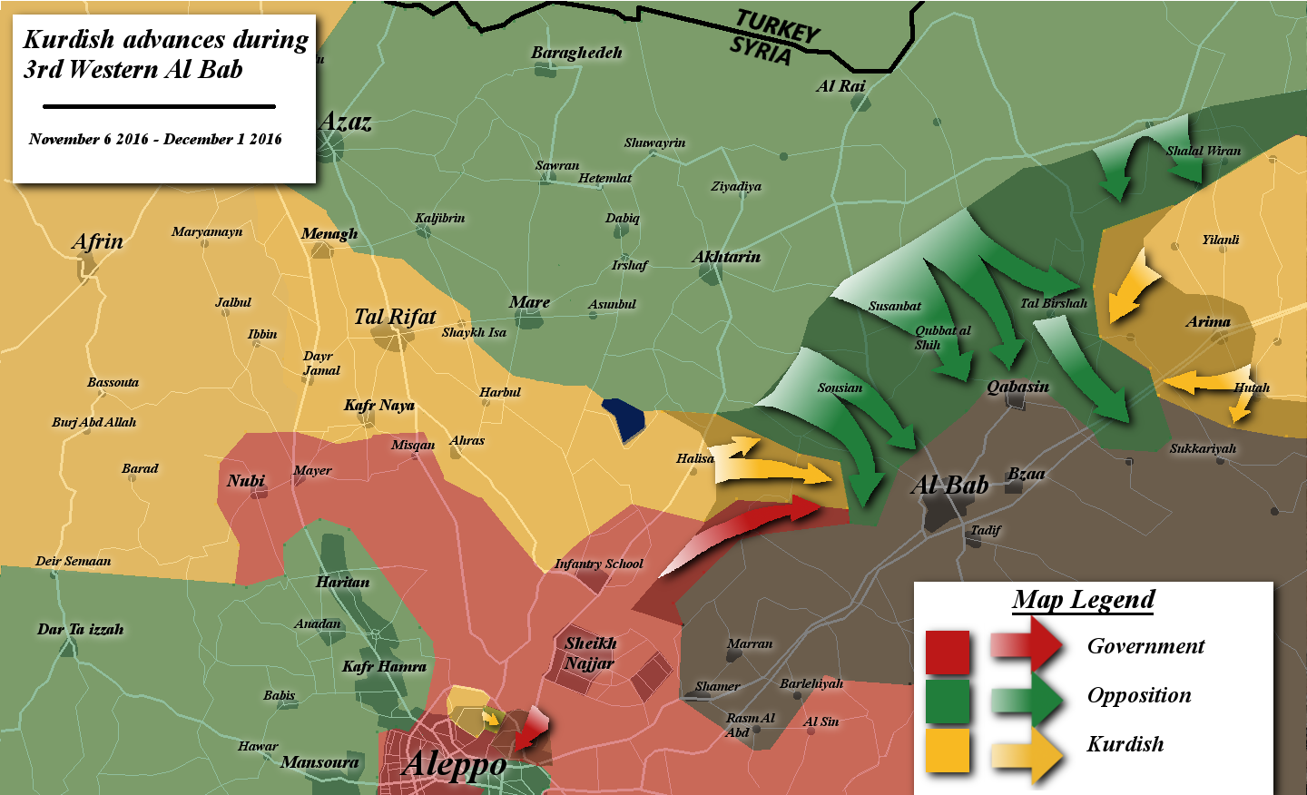 A simplified map of Kurdish advancements during the Battle of Al Bab. Created in gimp 2.8. Influenced by many maps from creators: MrPenguin20, PetoLucem, Edmaps Syria, and so on.